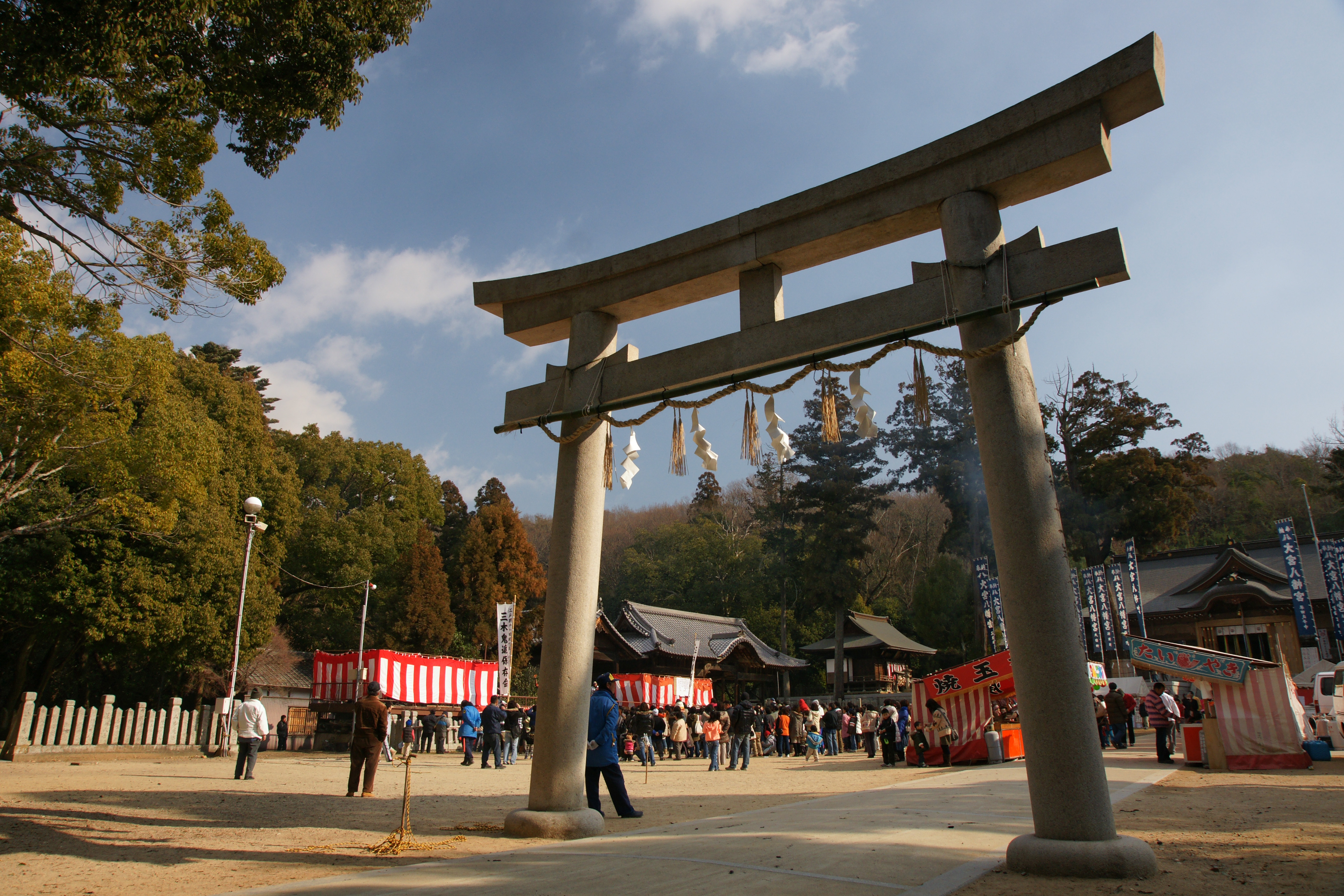 Omiya-Hachimangu in Miki, Hyogo prefecture, Japan